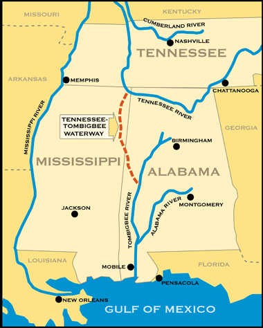 Map of the Tennessee-Tombigbee Waterway, from the U.S. Army Corps of Engineers.